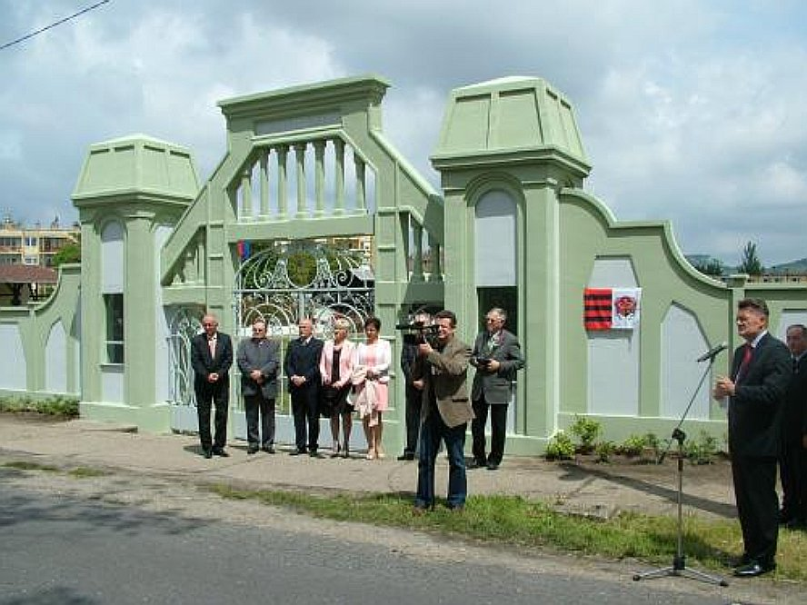 The main entrance after renovation in 2014